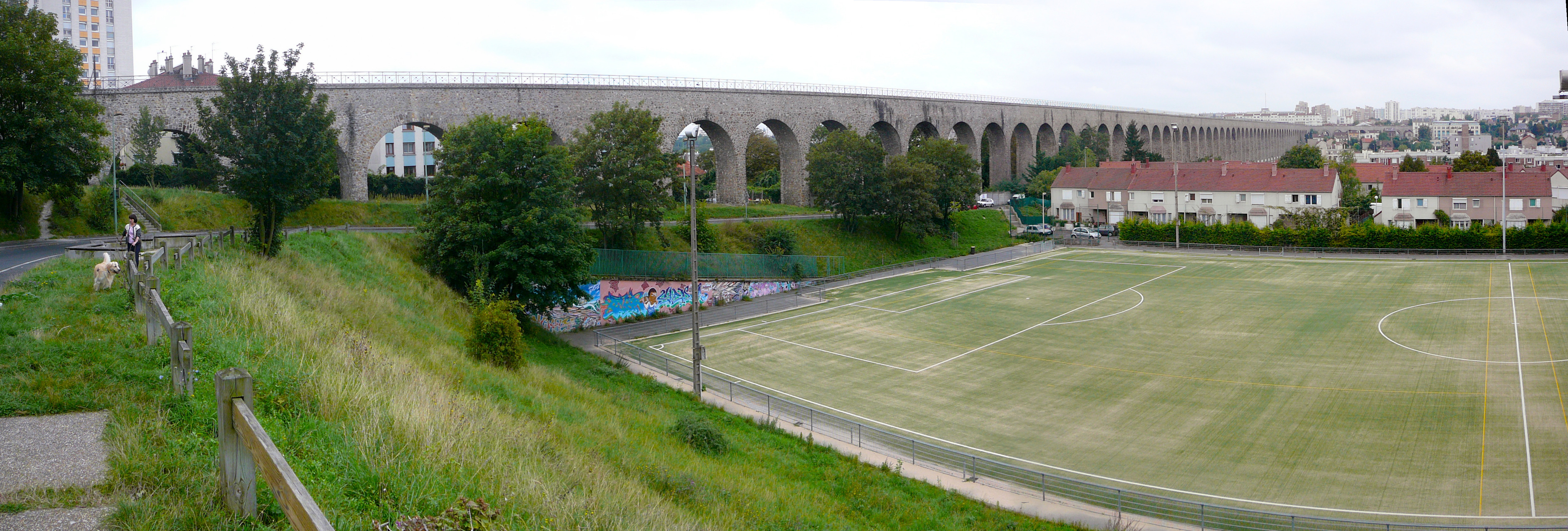 the 3rd Arceuil aqueduct completed in 1900